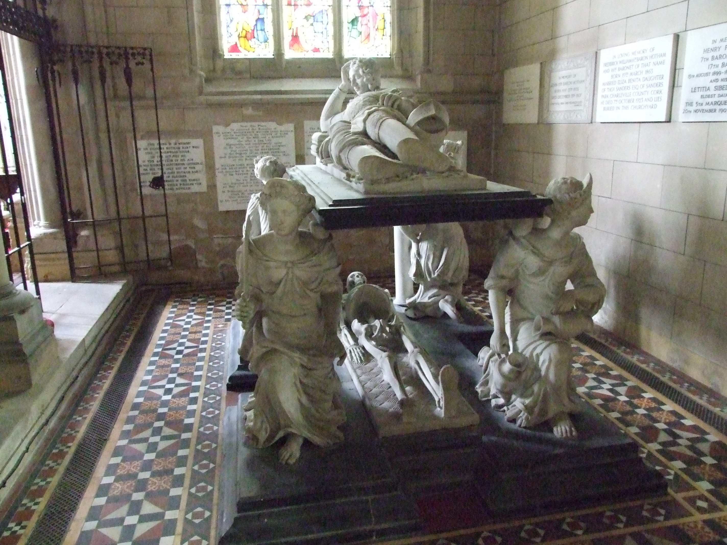 The Tomb of Sir John Hotham in St Mary's Church, South Dalton, East Riding of Yorkshire, England. Digital Photoraph, hand held in low light conditions. Taken by Austen Redman, 7 May 2007.